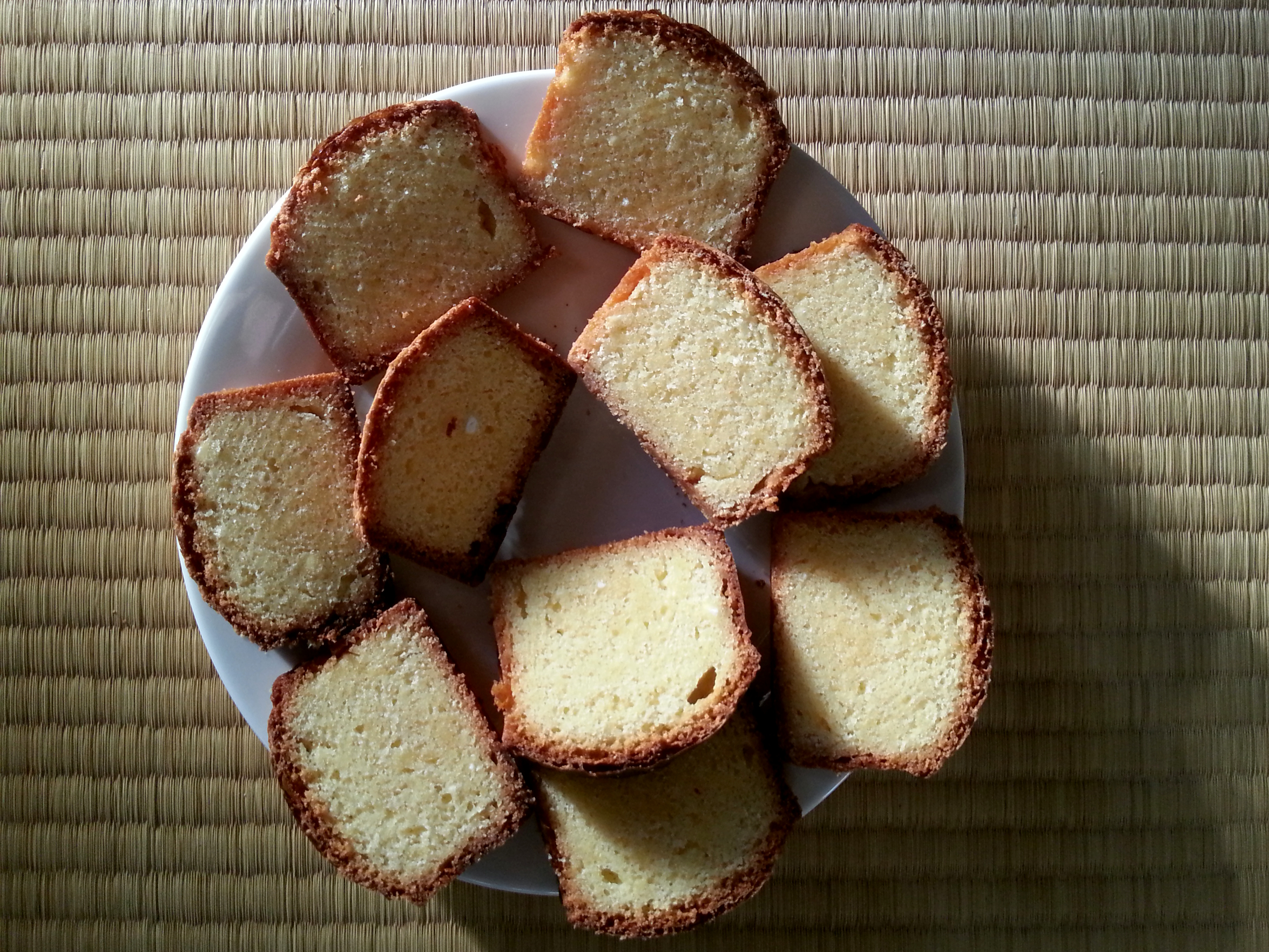 A pound cake sliced and arranged on a plate.